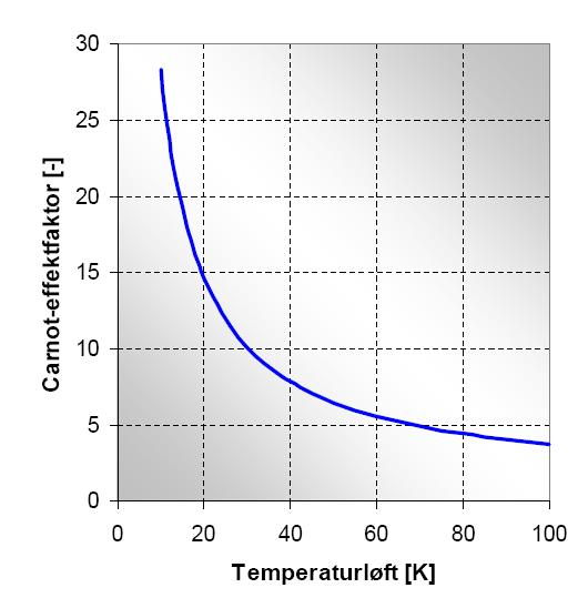 COP, heat pump effciency, temperature